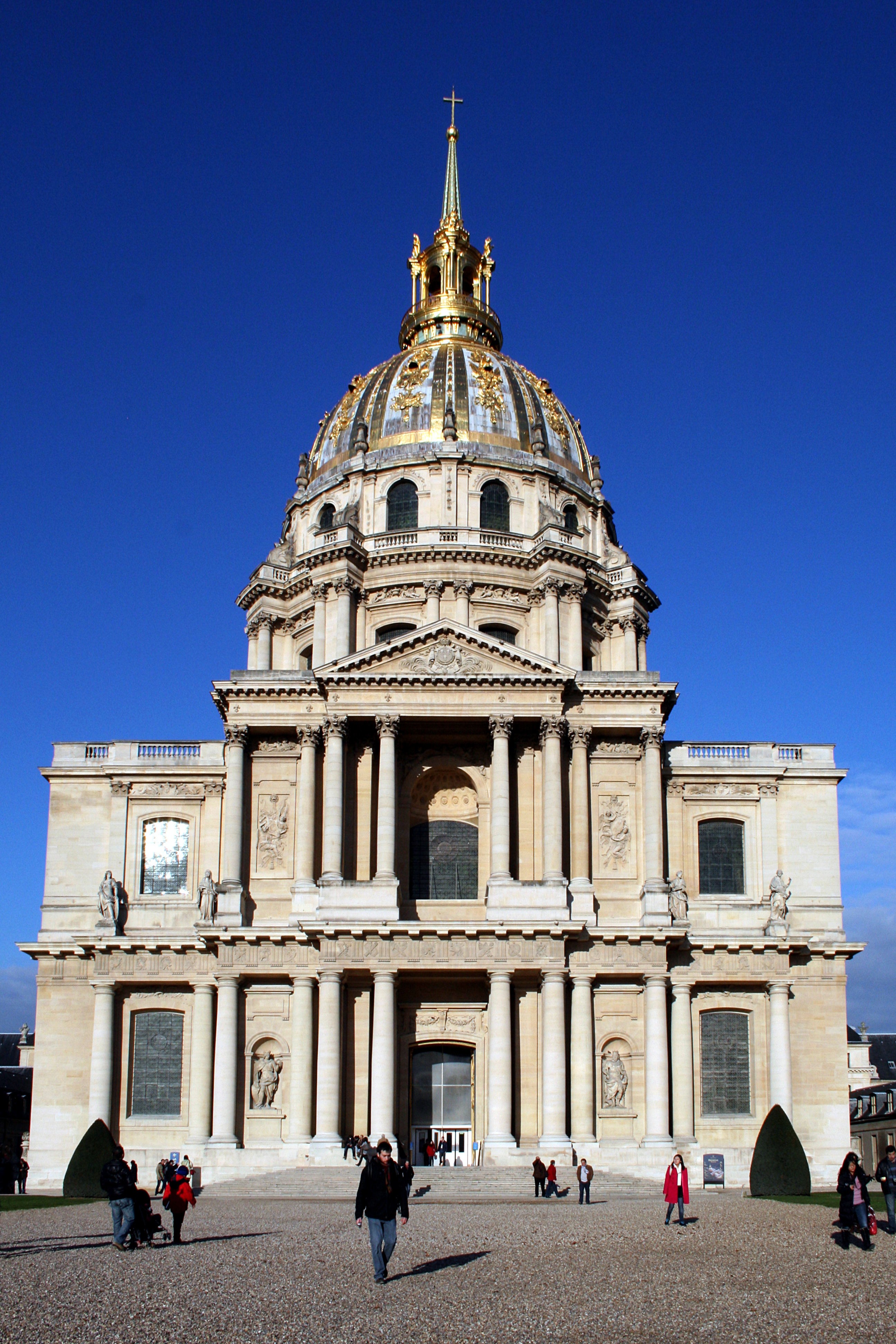 Saint-Louis-des-Invalides Cathedral (height 107 m), built between 1681 and 1708 according to the general plan in the shape of a Latin cross by Jules Hardouin-Mansart on the plain of Grenelle in Paris.